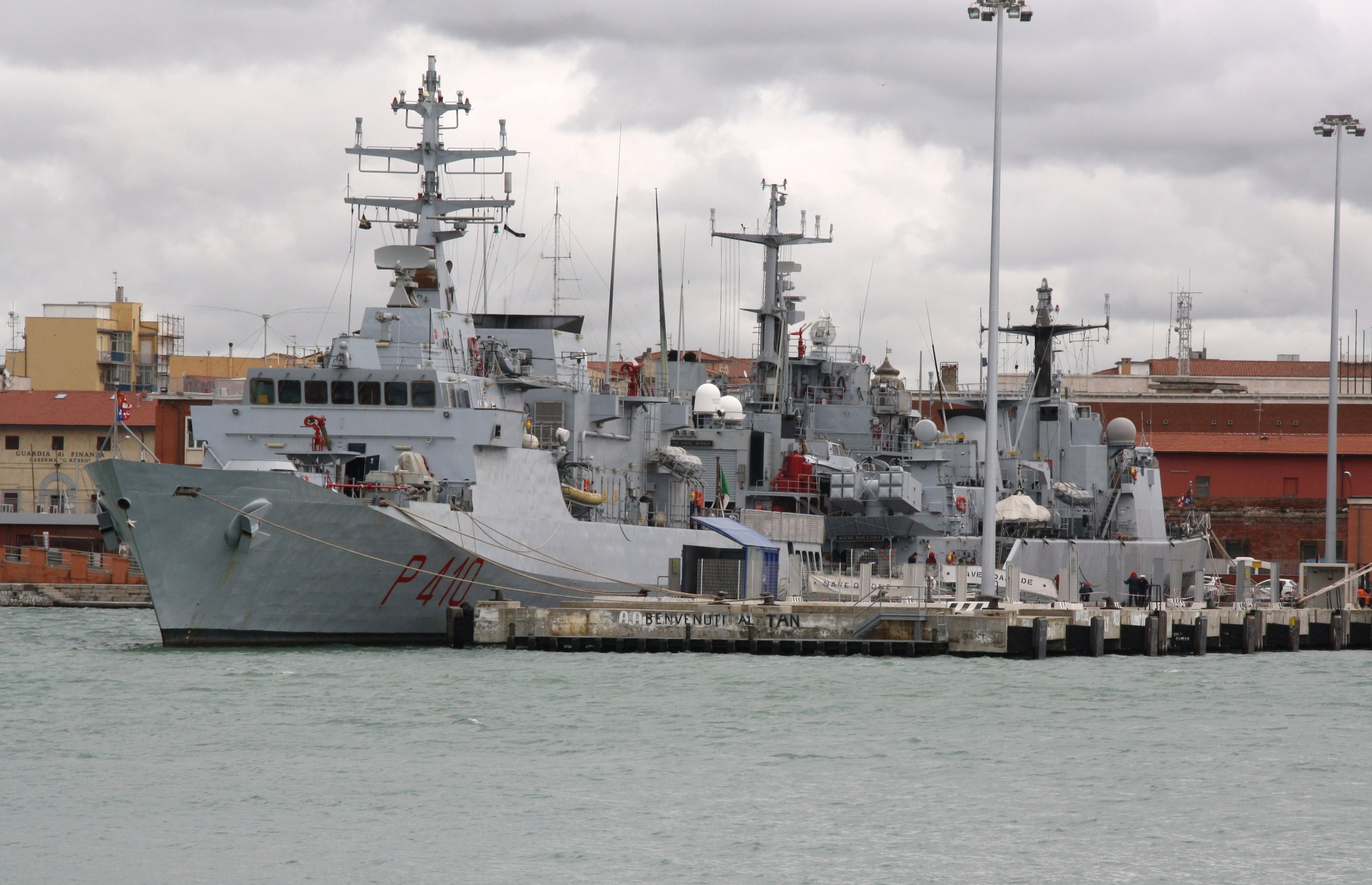 Italy, Marina Militare, Orione (P 410) Sirio-class patrol vessel built by Cantiere navale di Riva Trigoso has been launched on July 27, 2002. The main role is anti-pollution operations, search and rescue and defense of offshore platforms. Here is berthed in the Port of Livorno to the dock “Andana degli Anelli” of “Porto Mediceo”.